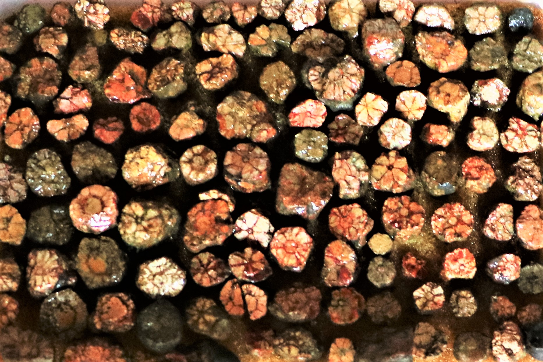 Cerasite owned by Sakura Tenmangu Shrine